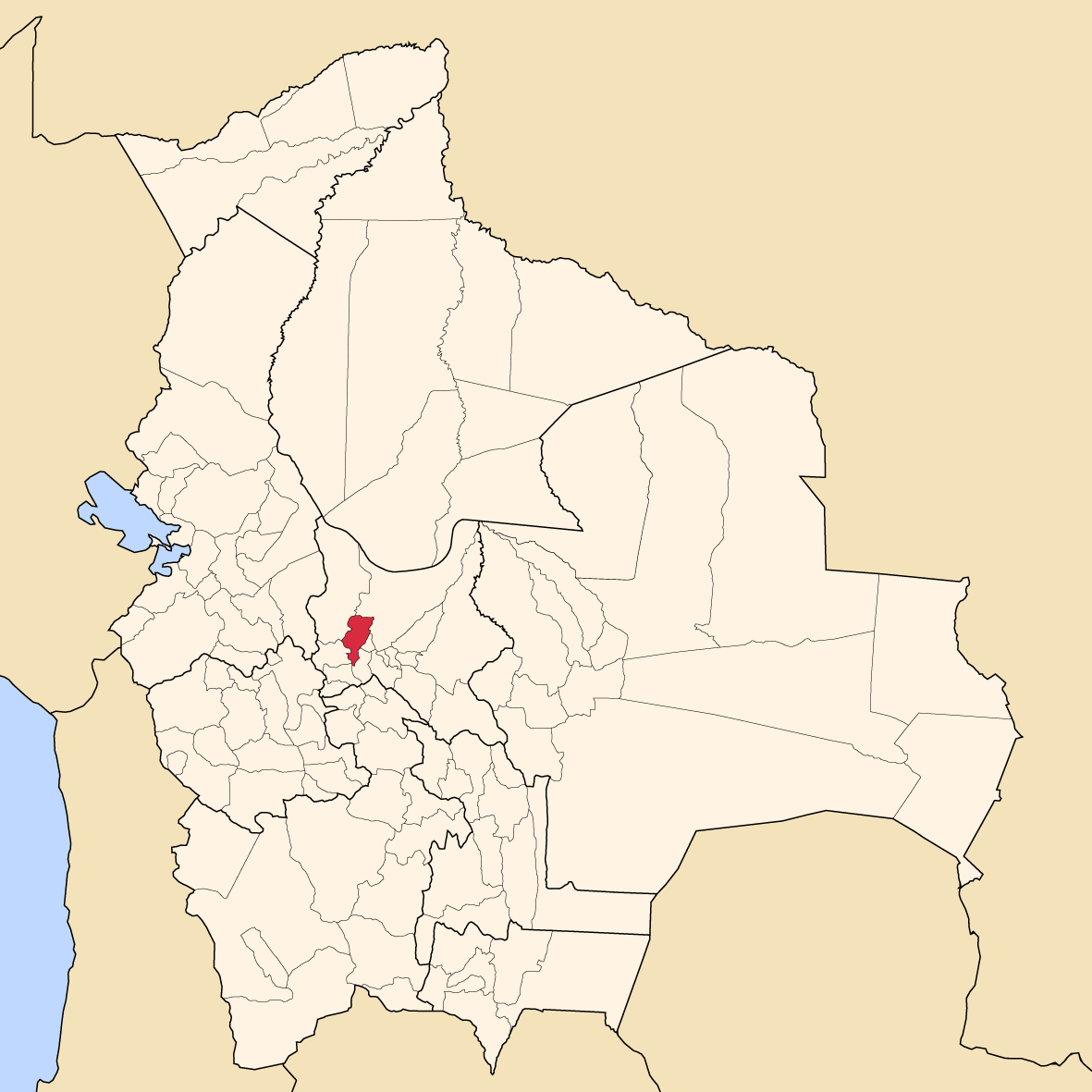 Map of Bolivia showing Quillacollo province